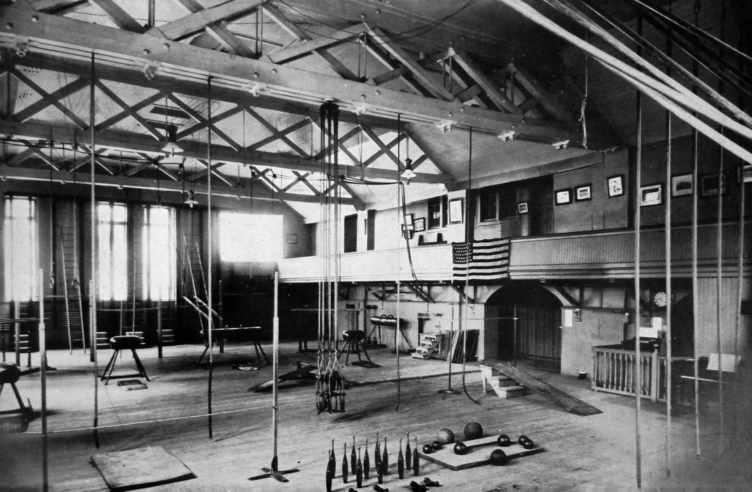 Gymnastics gym of the Milwaukee Turnverein.